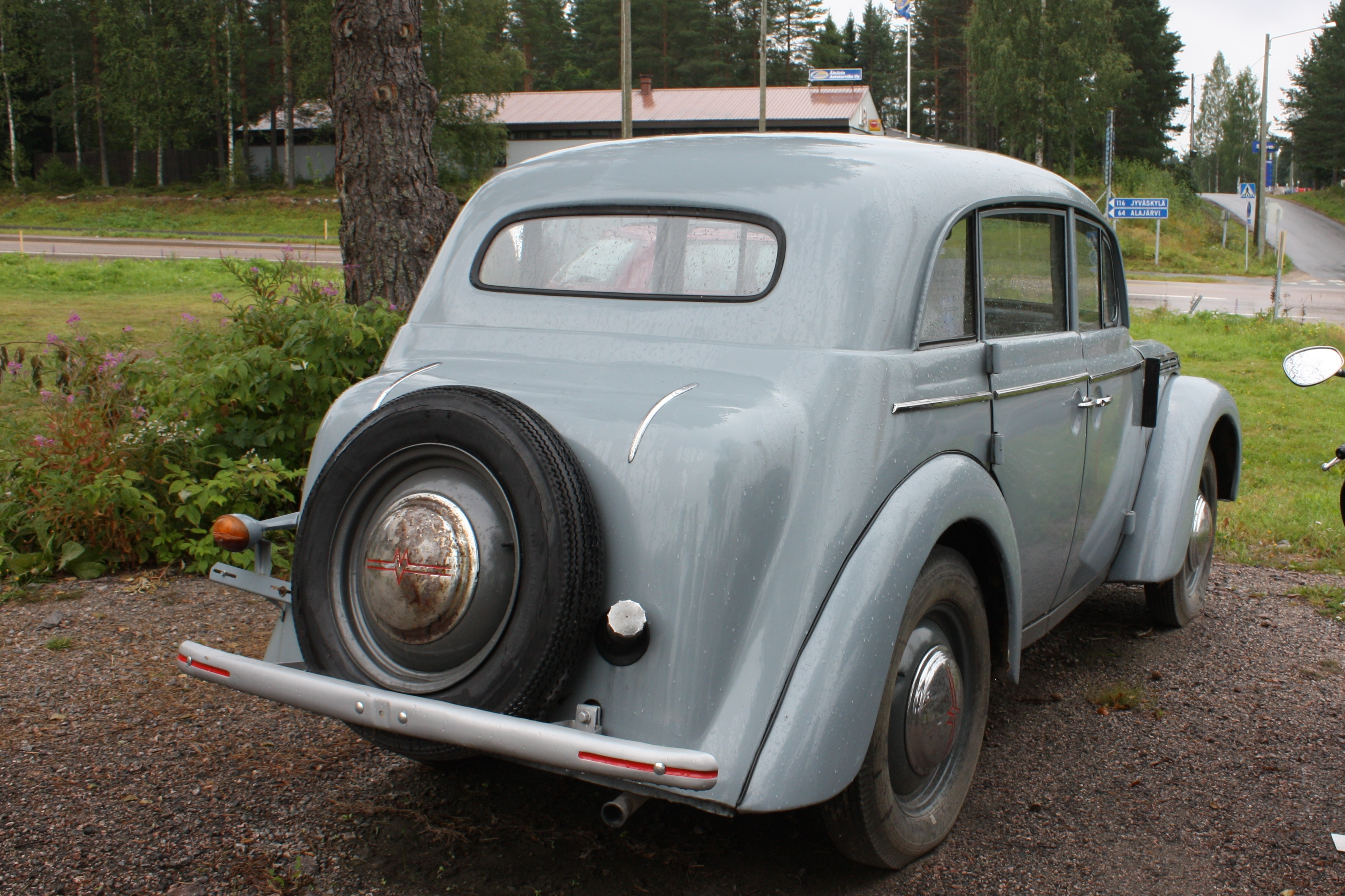 Moskvich 401 model 1955. Photographed in Ähtäri.